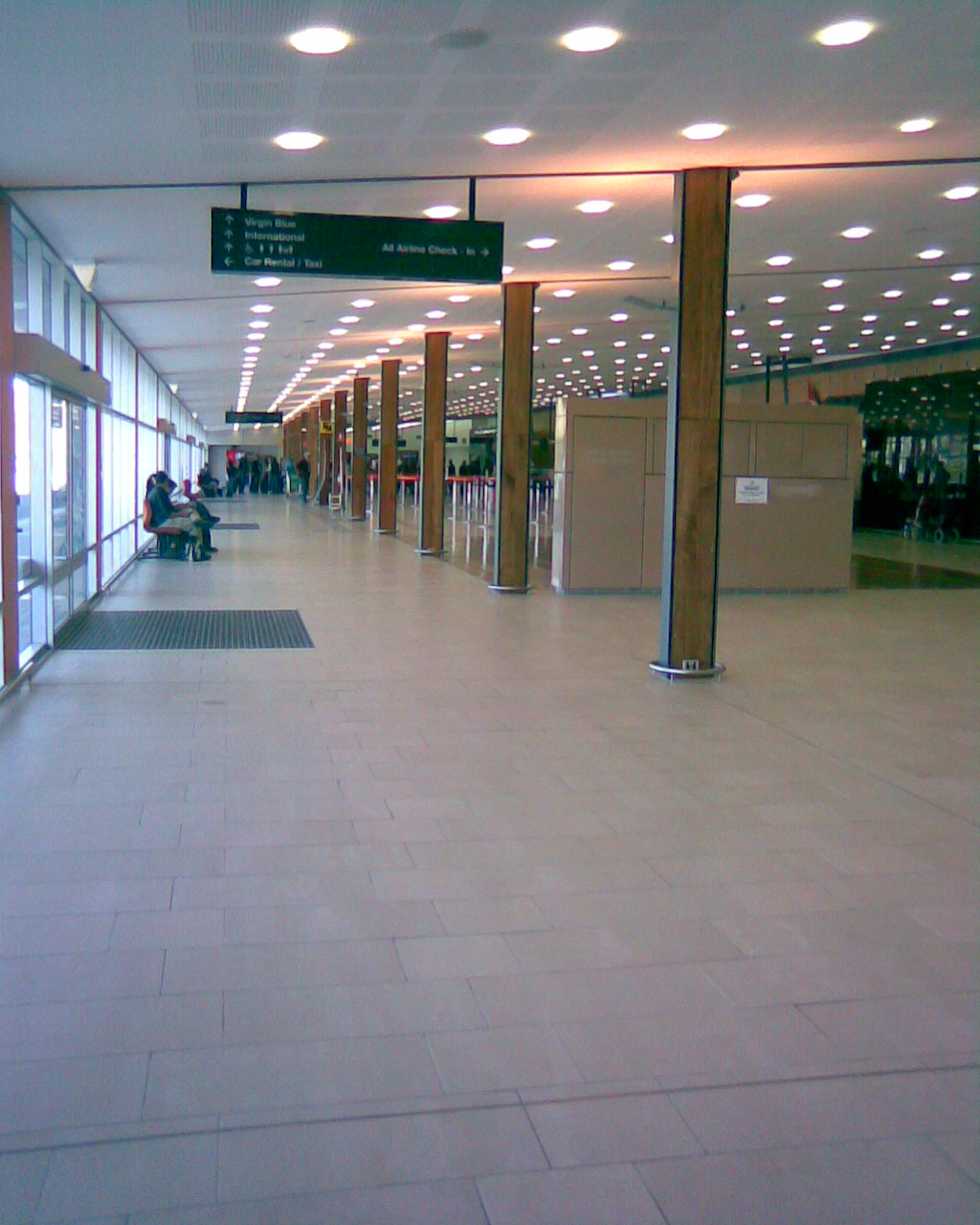 took picture myself at new hobart airport extension.